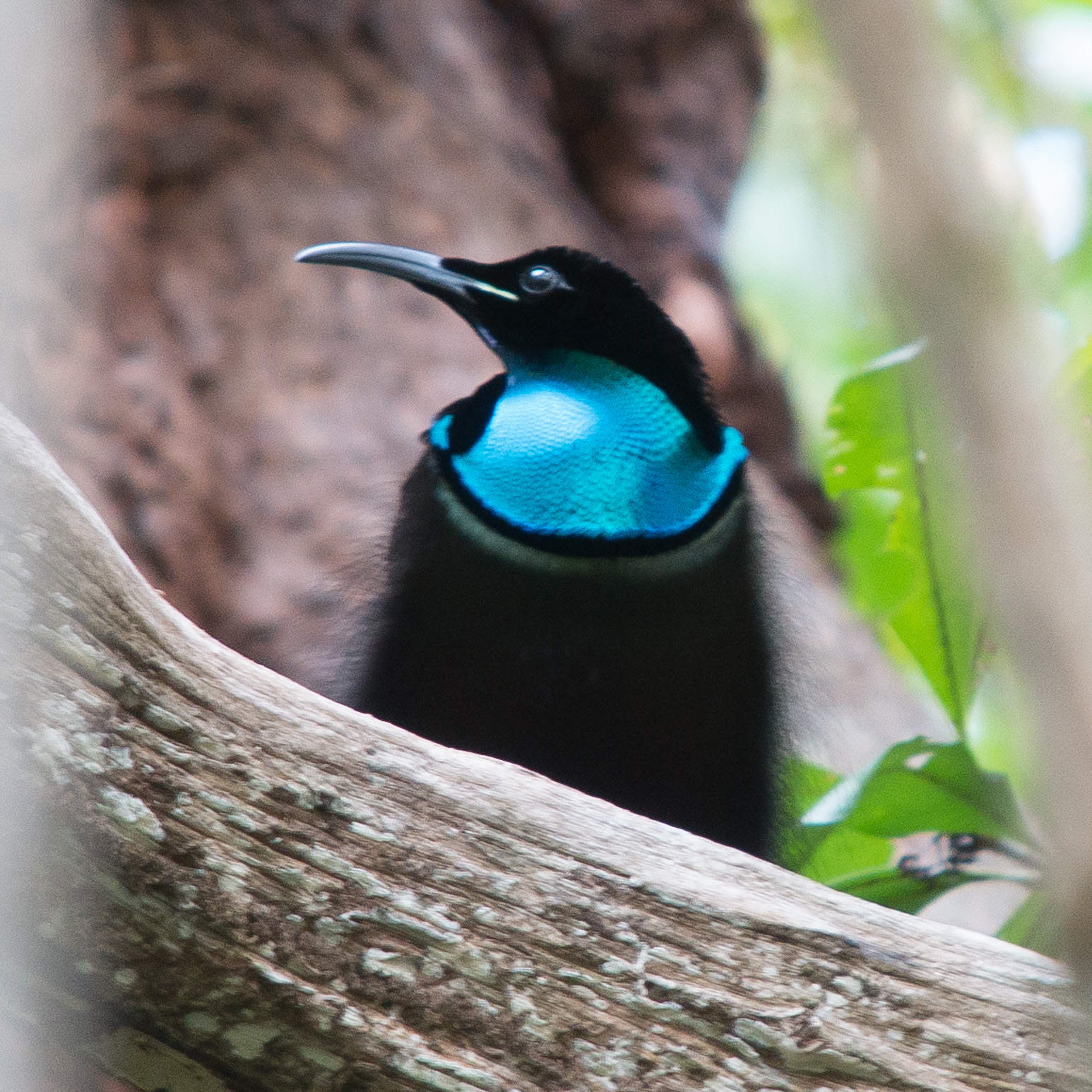 Magnificent Riflebird (Ptiloris magnificus), Lockhart River, Queensland, Australia